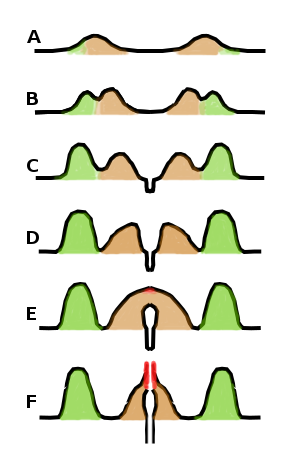 Development of aedeagus after Snodgrass, from two phallic lobes (A) to four phallomeres (C), the outer ones becoming parameres (green), the inner ones growing together and forming distal aedeagus (F, red)